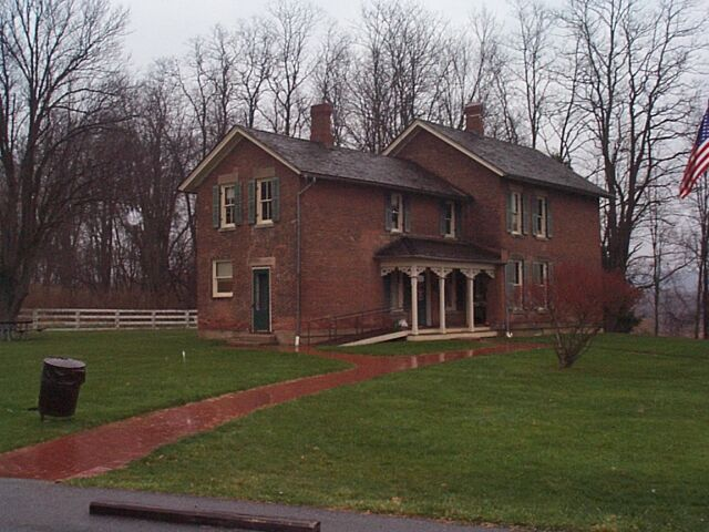 Jonas Coonrad House, Cuyahoga Valley National Park, Ohio